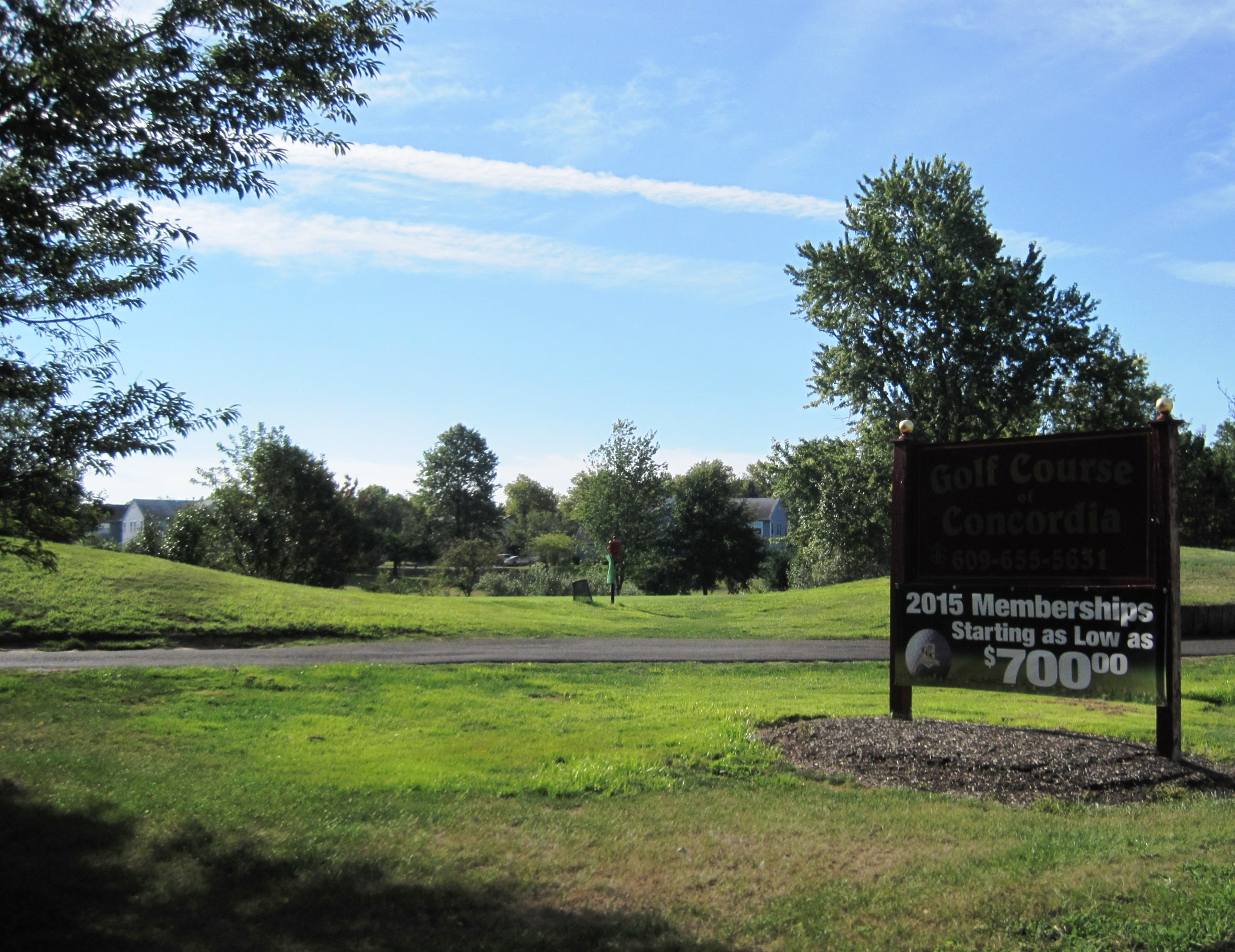 Photo of the Golf Course at Concordia in Concordia, New Jersey, a census designated place within Monroe Township, Middlesex County. Taken along Half Acre Road (County Route 615).